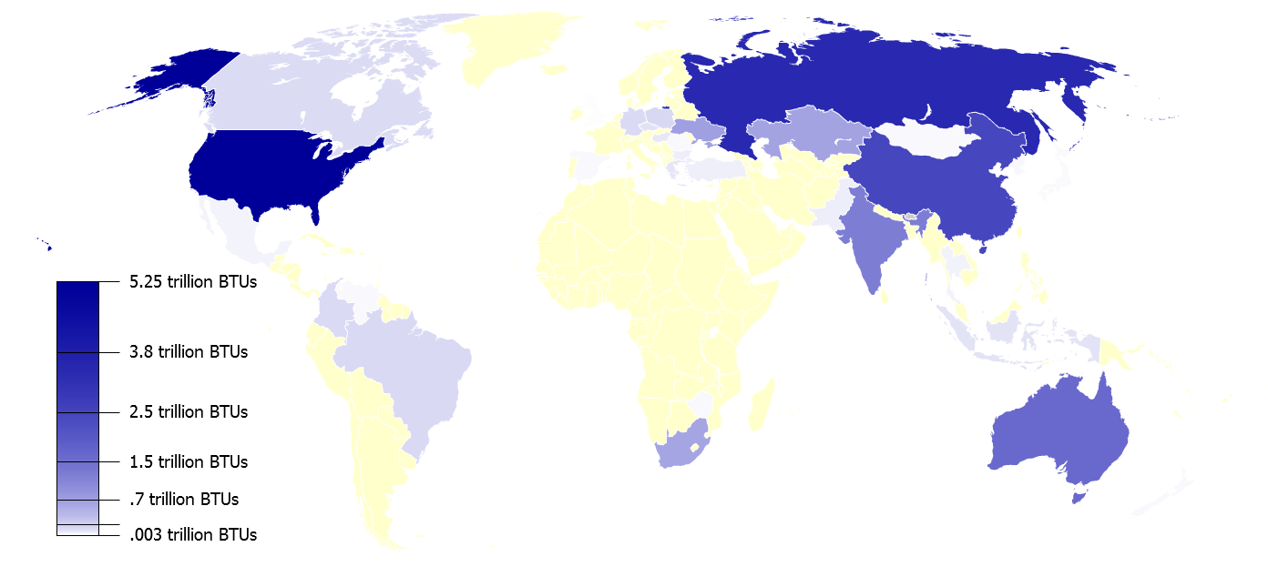 Global coal reserves in BTUs at end of year 2009. Sources: BP Statistical review of world energy June 2010, accessed 28 August 2010. Ganbaatar Badgaa of the Ministry of Fuel and Energy of Mongolia, Department of Fuel Policy and Regulation "Current Status of and Prospects for Energy Resources and Infrastructure Development of South Gobi in Mongolia, accessdate=28 August 2010. Foreign Investment and Foreign Trade Agency (FIFTA) The Government of Mongolia, "Investment Opportunity: Minerals", accessdate=28 August 2010. This map was created with GunnMap GunnMap was created by Arthur Gunn and is available, free, at and Please attribute by linking to